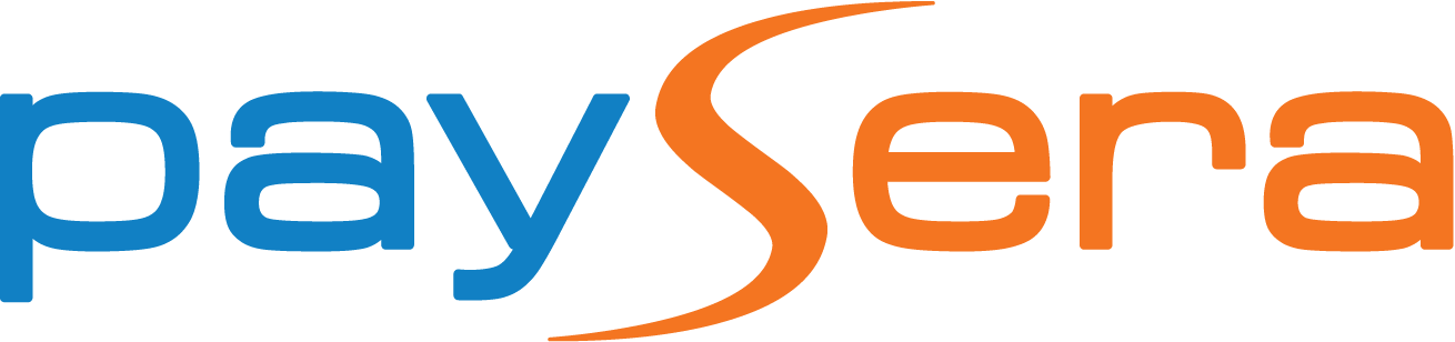 Paysera logo